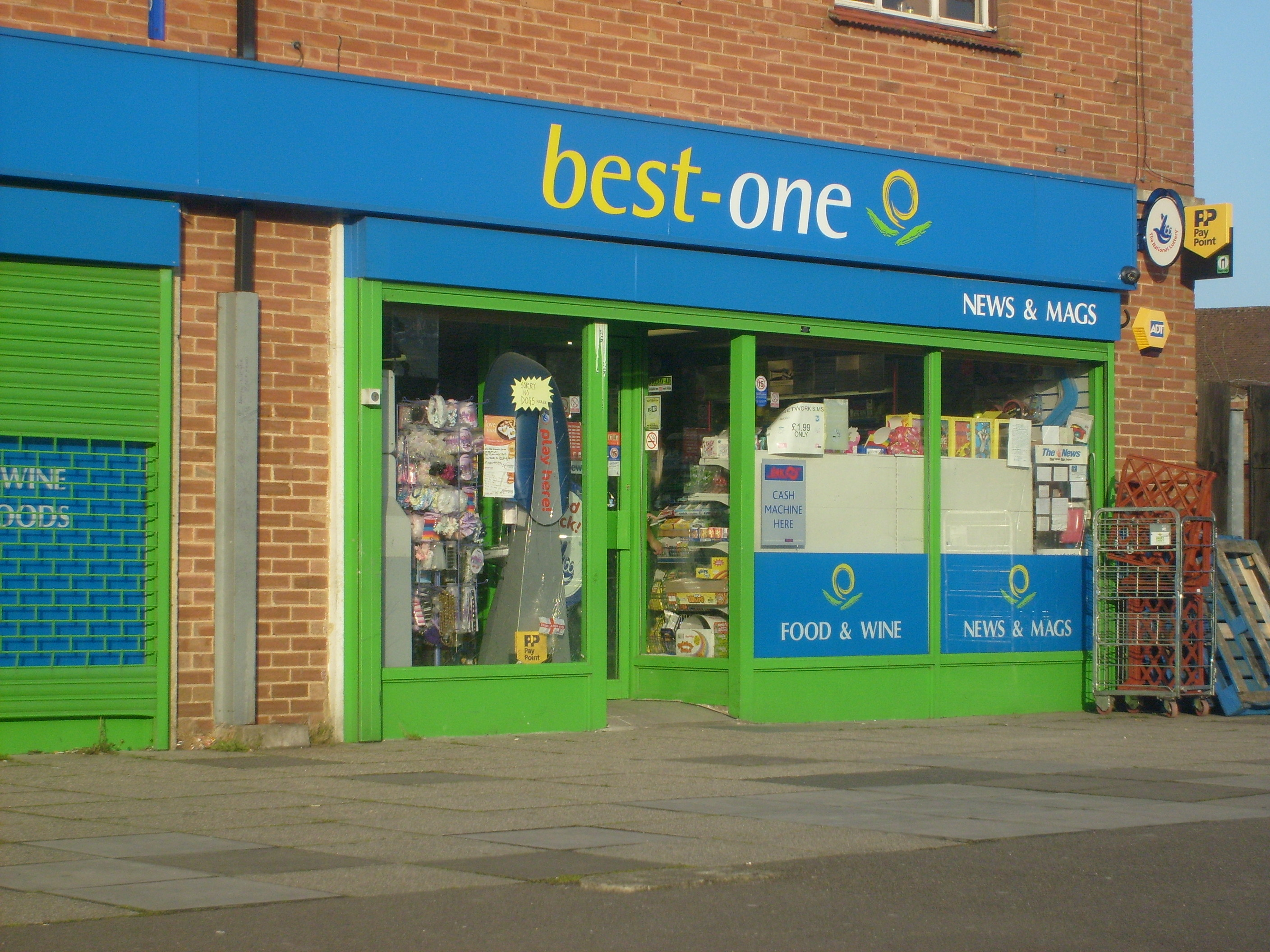 A Best Buy corner shop in Britain.